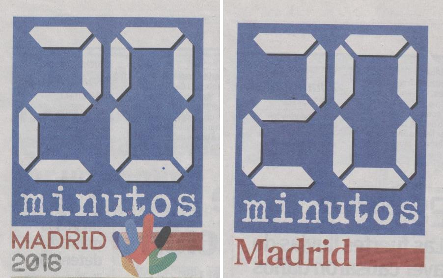 Comparison between an usual 20 minutos newspaper (sample taken from 9 October 2009) and the one supporting Madrid 2016 (sample taken from 30 September 2009).